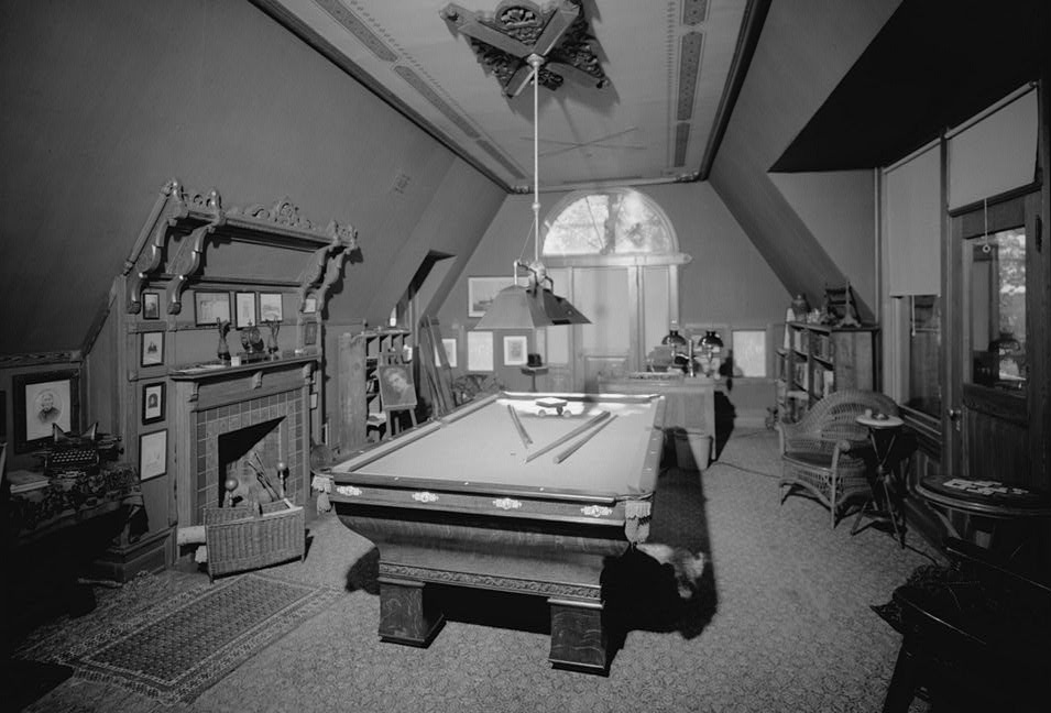 Mark Twain House, 351 Farmington Avenue, Hartford, Hartford County, CT - Third floor, billiard room, general view to the south.